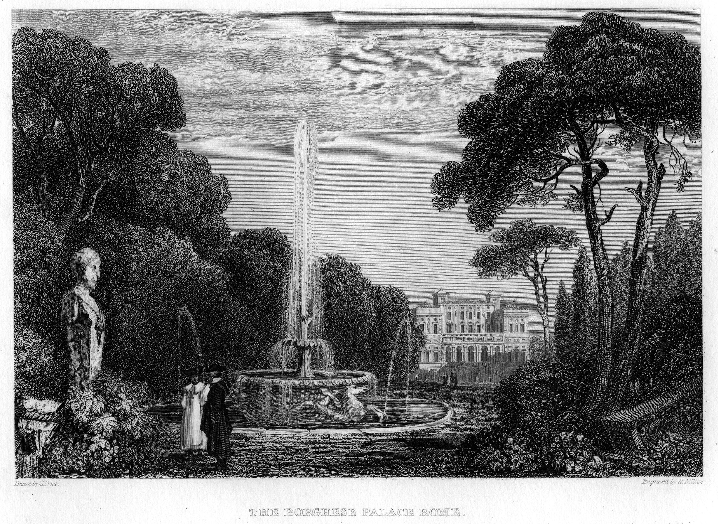 Borghese Palace, Rome engraving by William Miller after Samuel Prout (Miller paid £42-0-0 in x 1830), published in The Landscape Annual for 1831. The Tourist in Italy. Roscoe, Thomas. London: Robert Jennings and William Chaplin. 1831